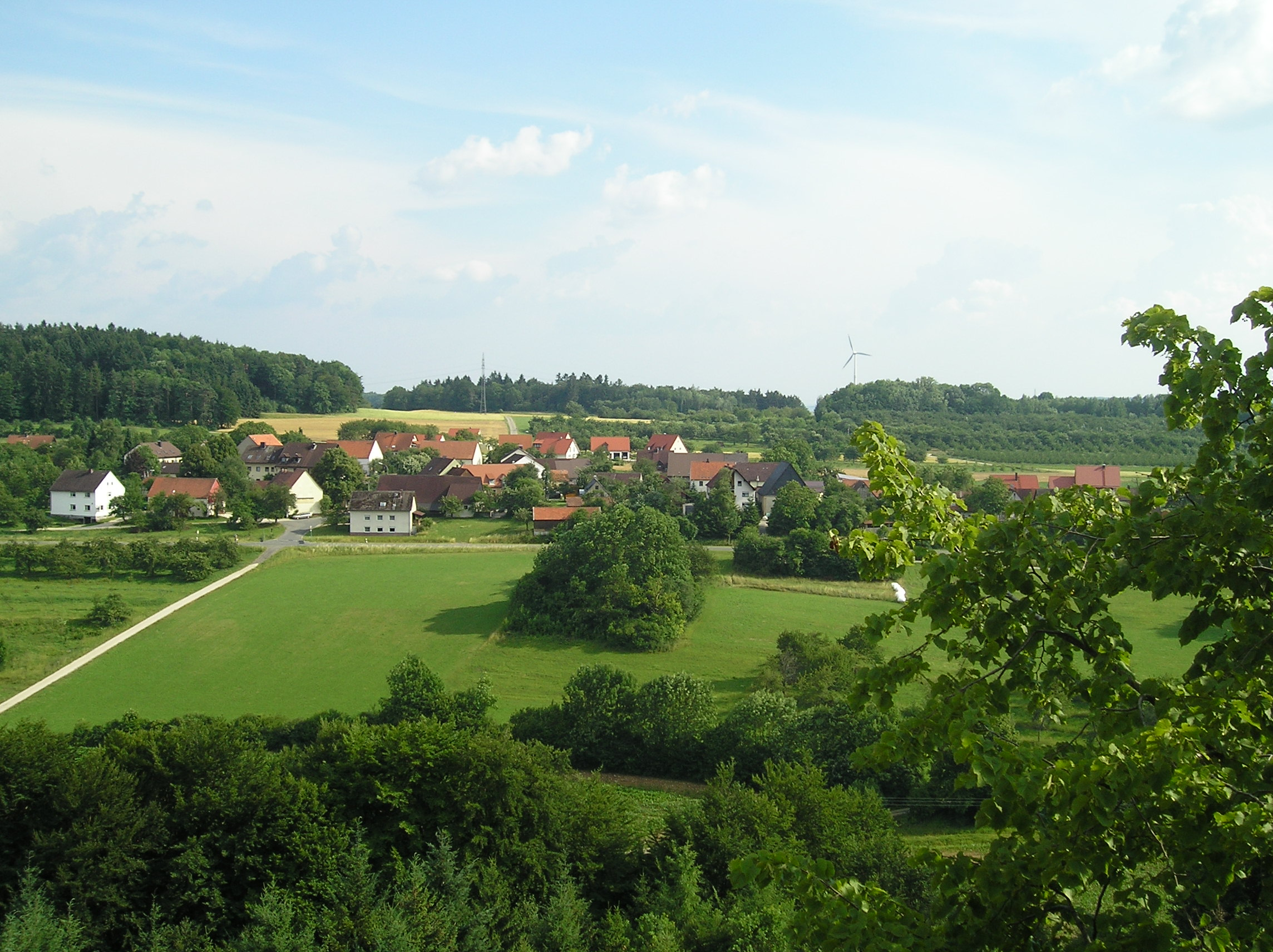 The village of Haidhof in the Franconian Swiss mountain range in Bavaria, Germany viewed from above from the peak of the Schlossberg mountain.